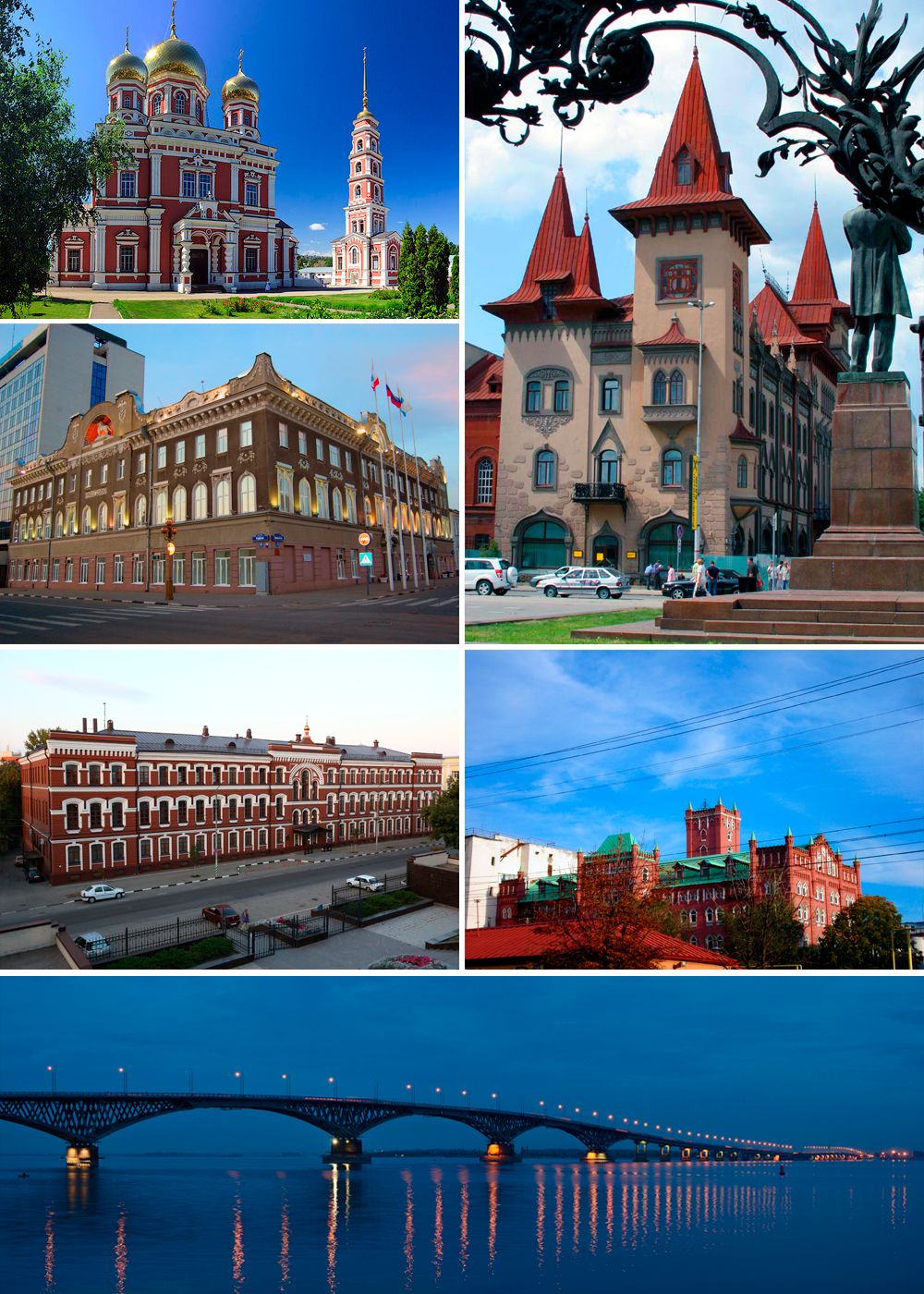 Collage for Saratov Article